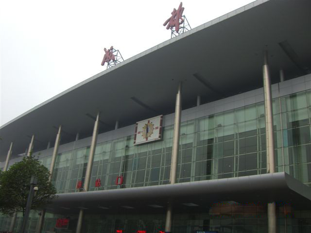 chengdu railway station